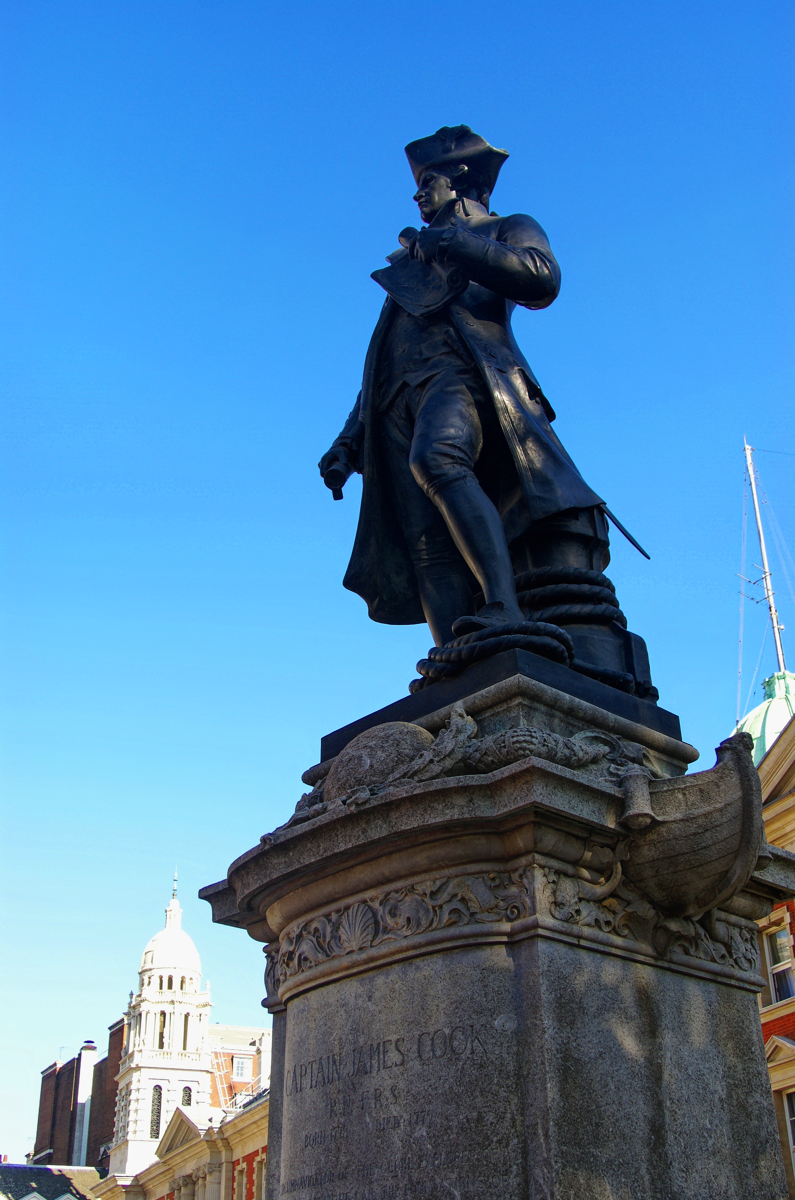 London - The Mall - View East on Captain James Cook Statue 1914 by Thomas Brock